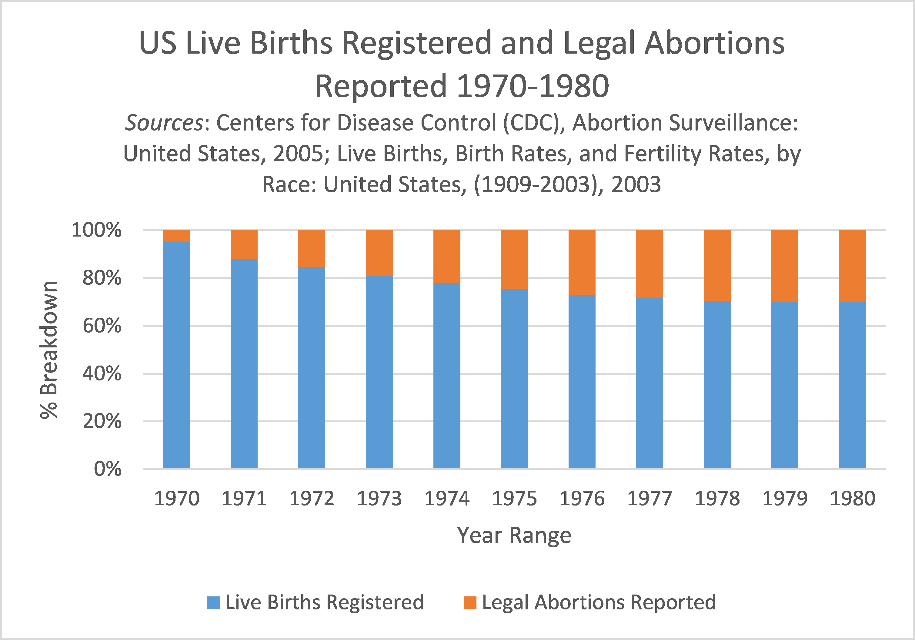 This chart shows the number of US legal abortions as a % breakdown of US registered live births between 1970 and 1980.